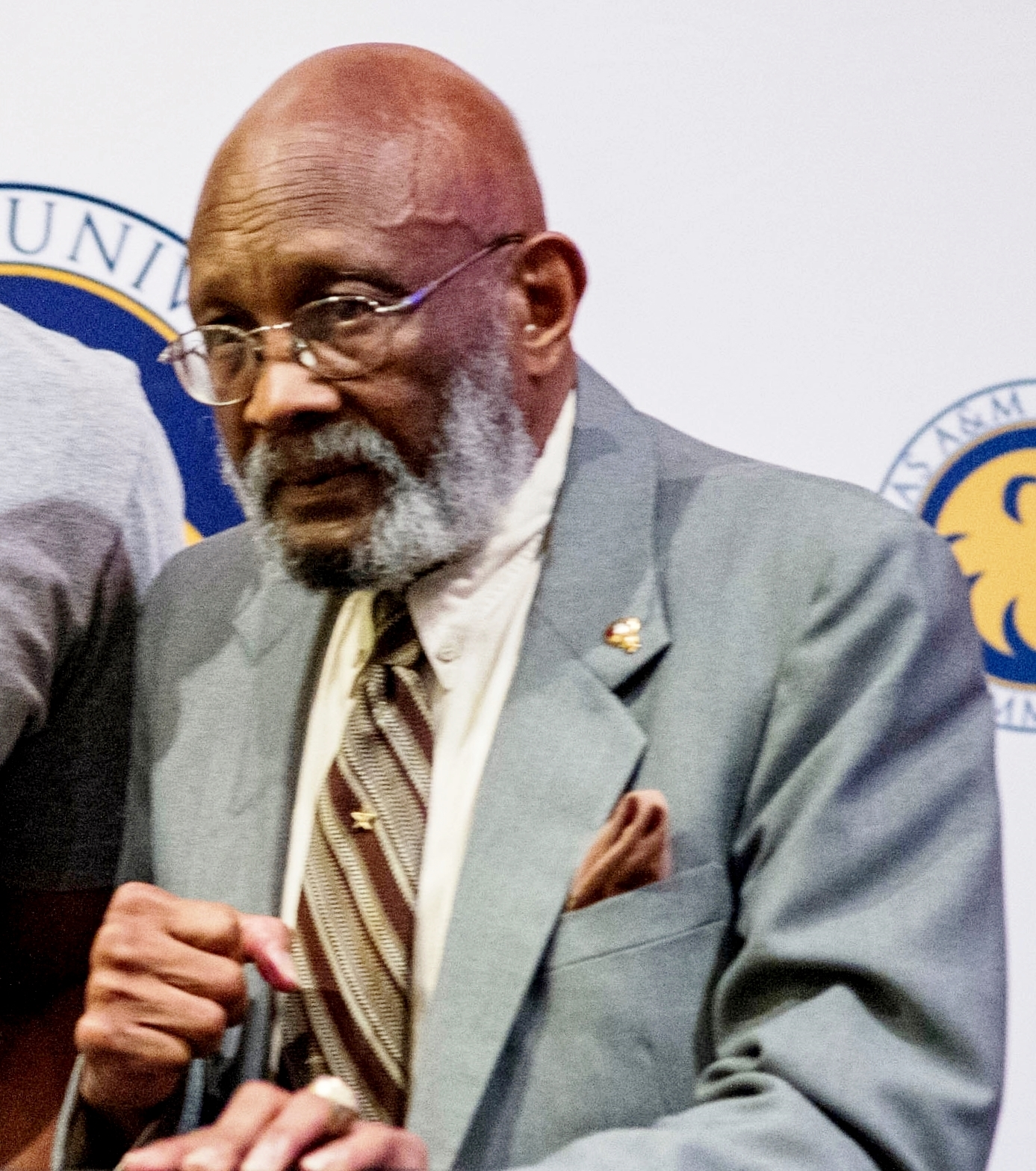 Curtis Cokes at the Texas A&M University-Commerce campus for a panel discussion and Q&A session on March 19, 2014.